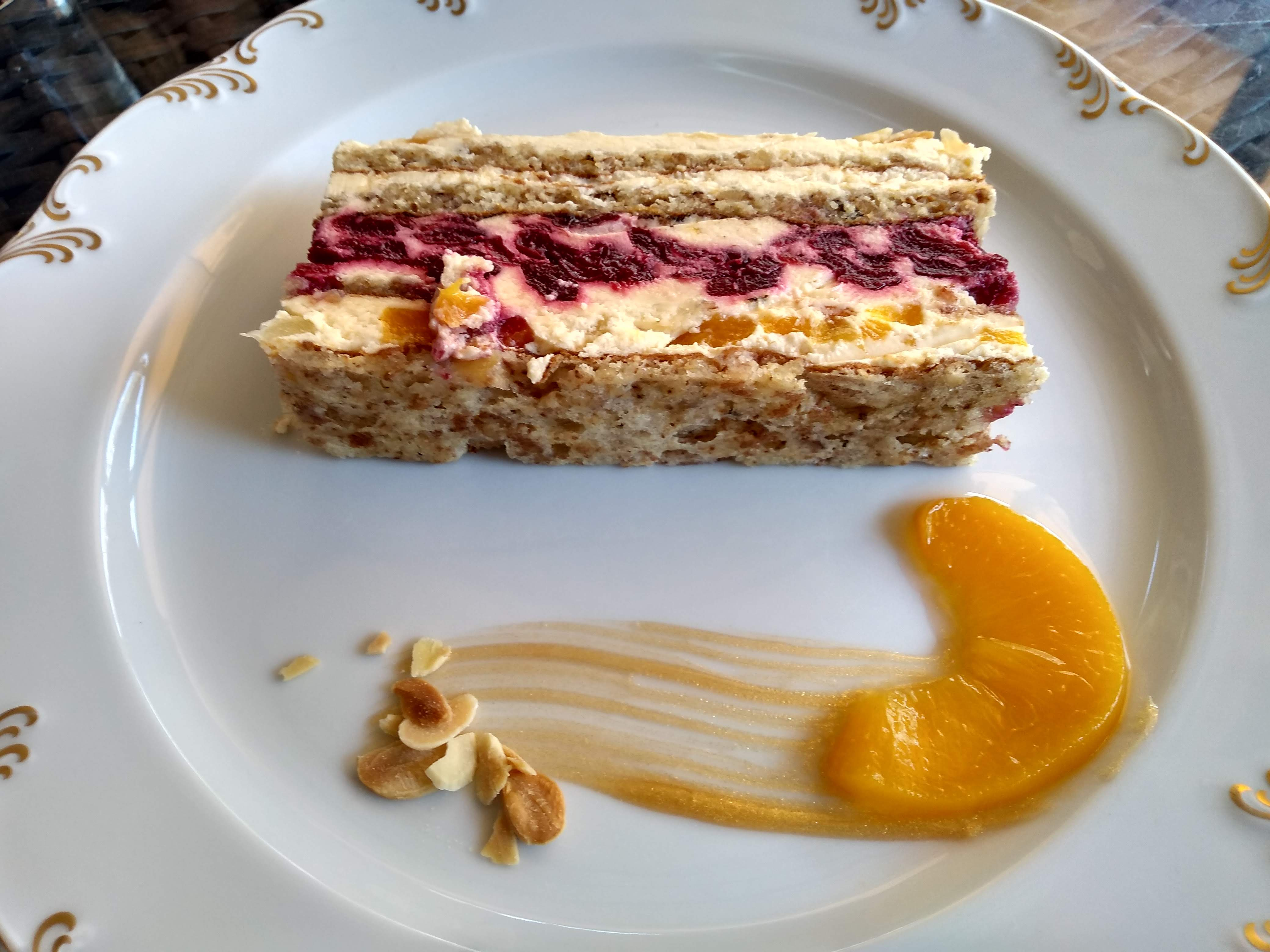 "Moskva slices" cake in Hotel Moskva in Belgrade (Serbia